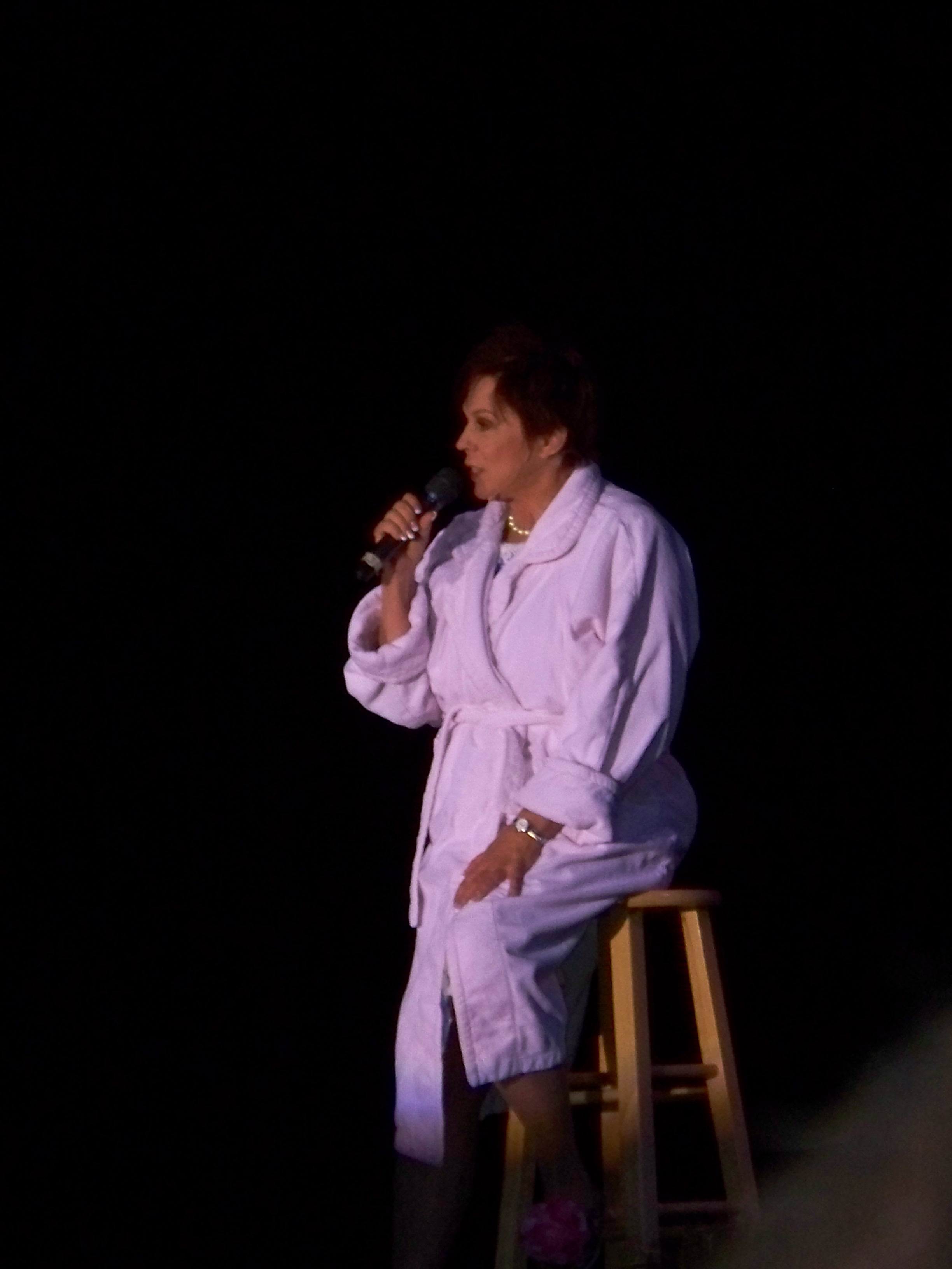 Vicki Lawrence performing live, 2009.